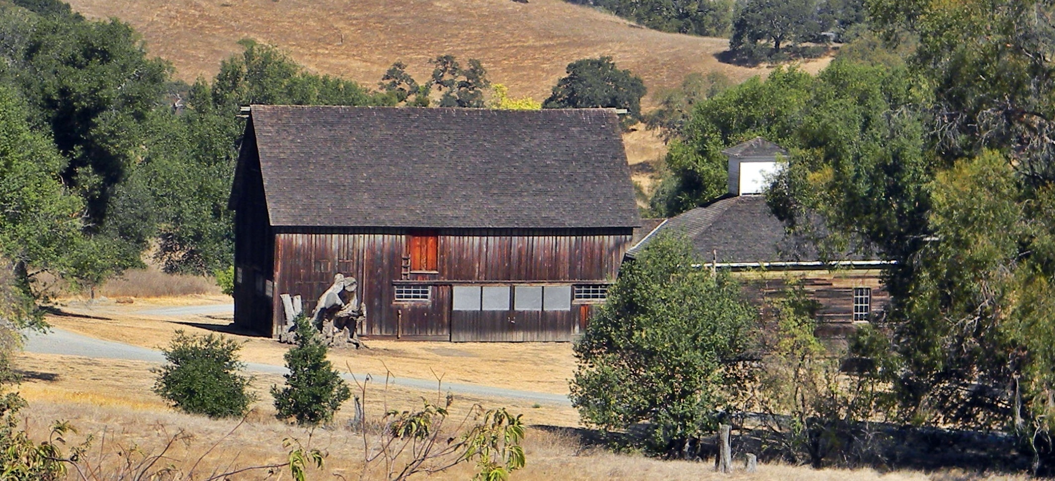 Burdell Barn — at Olompali State Historical Park, near Novato in Marin County, California. Taken from east facing slope of Mt. Burdell.